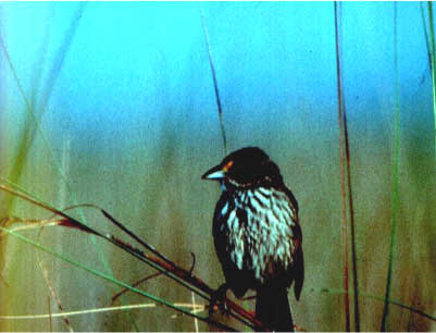 And image of the Cape Sable Seaside Sparrow. The image was found here [1] This image will be used on the Cape Sable Seaside Sparrow page.